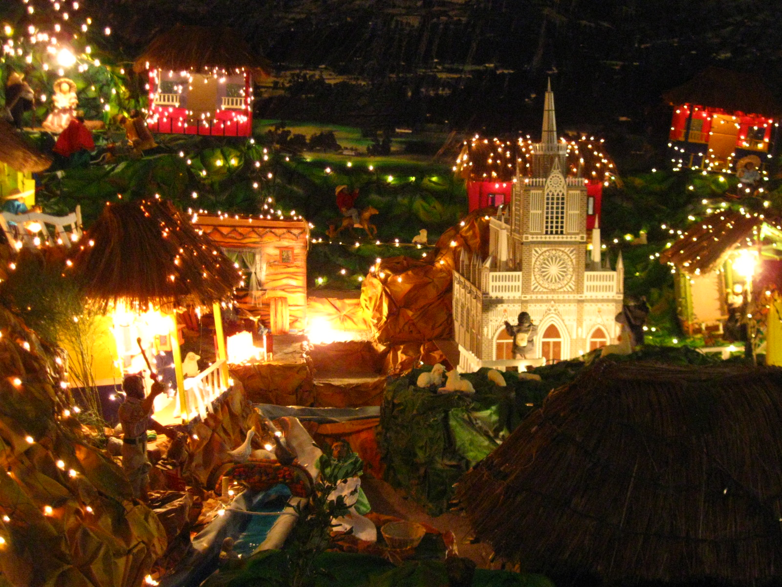 Pesebre navideño Catedral